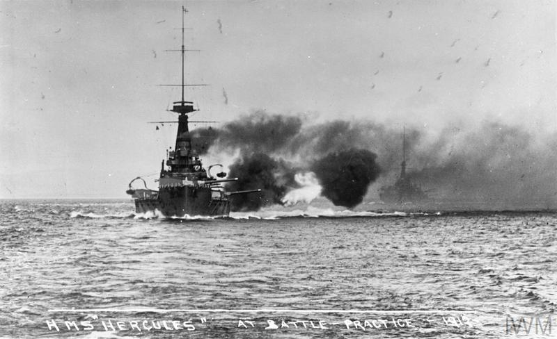 The battleship HMS Hercules at battle practice